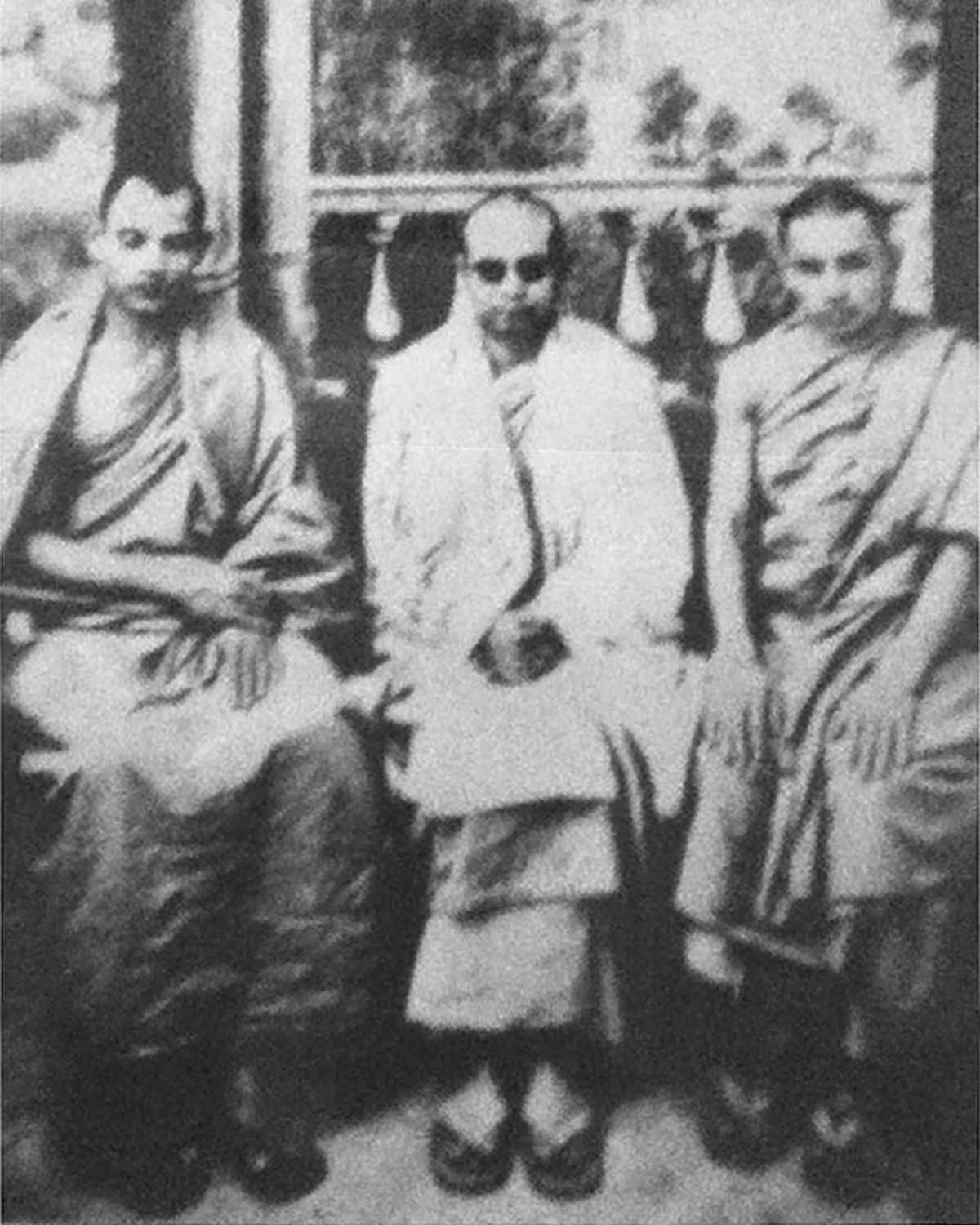 Nepalese Buddhist monks Pragyananda, Mahapragya and Shakyananda in Kalimpong, India in circa 1935.